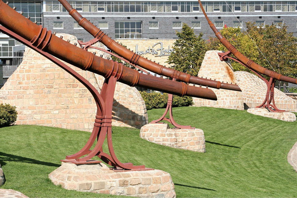 Hotel at The Forks